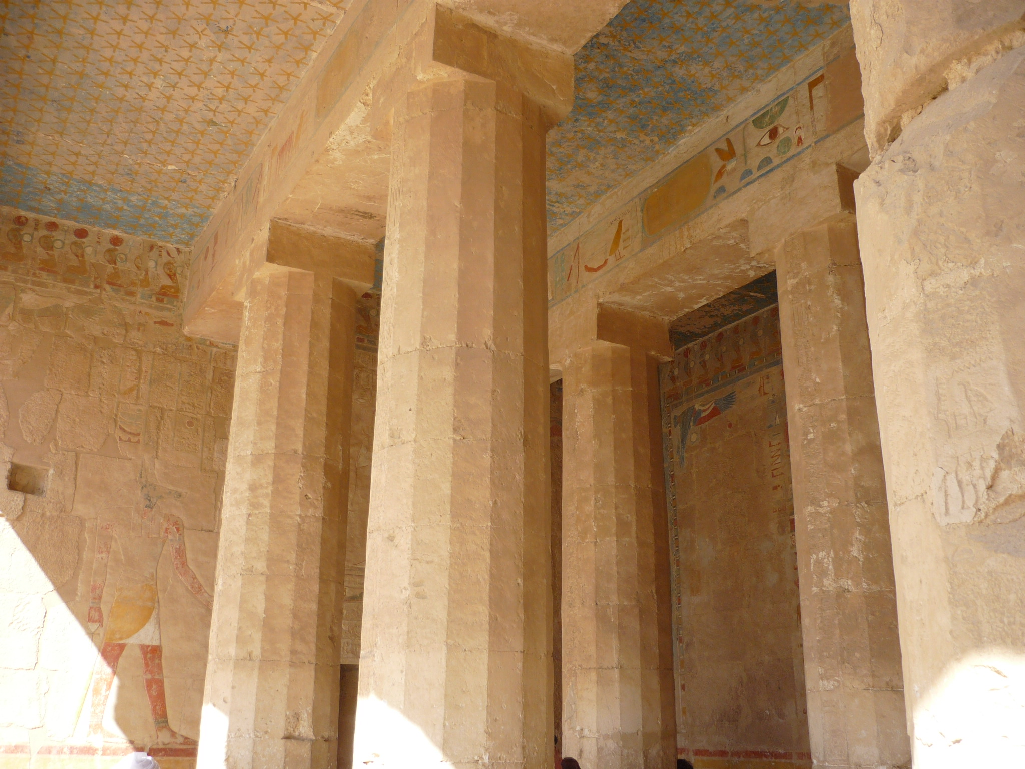 Anubis temple, Hatshepsut temple, Deir el-Bahari, Theban Necropolis, Egypt